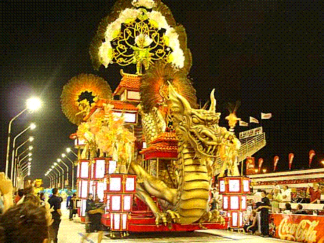 Carnaval de Gualeguaychú